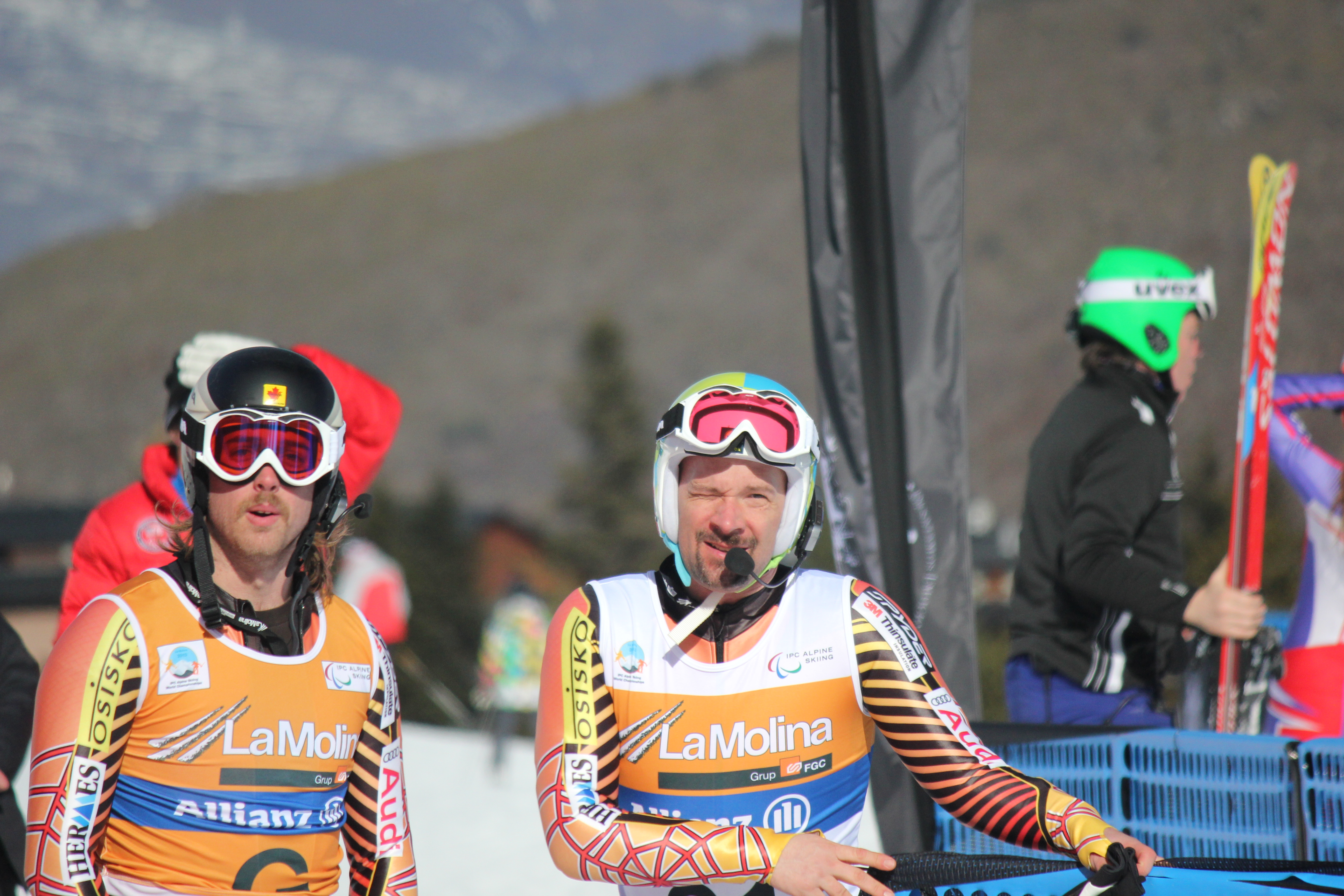 Chris Williamson and guide Robin Femy of Canada. 2013 IPC Alpine World Championships at La Molina in Spain. Day 2 of competition. Super-G final.